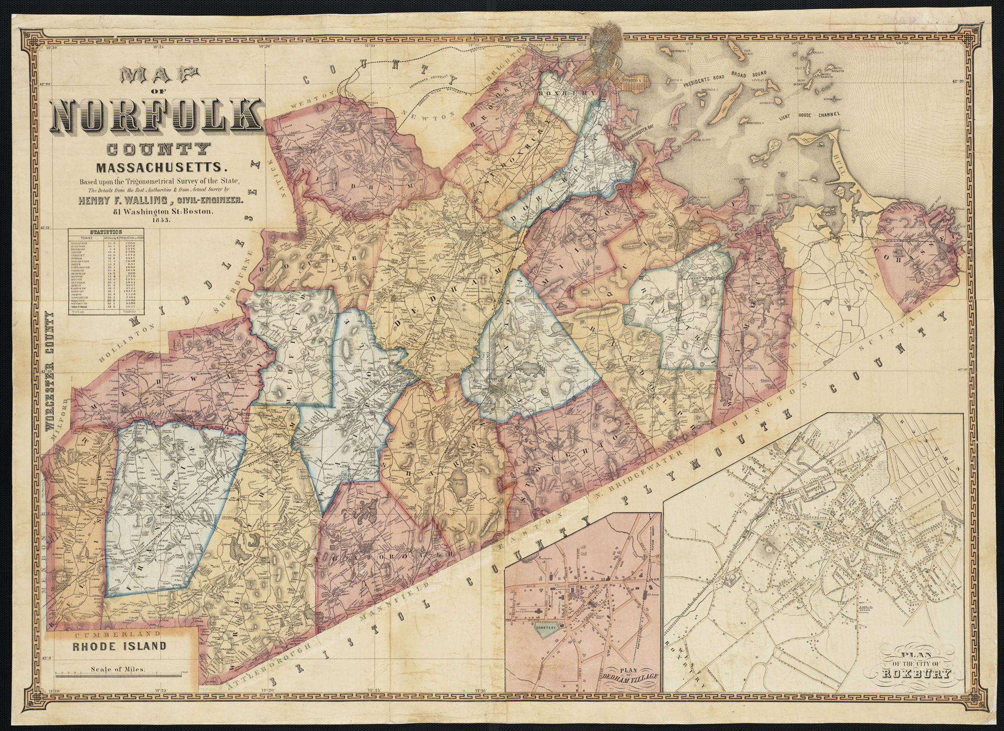 Zoom into this map at . Author: Walling, Henry Francis Publisher: [H.F. Walling] Date: 1853. Location: Norfolk County (Mass.) Scale: Scale [1:63,360]. Call Number: G3763.N6 1853.W3